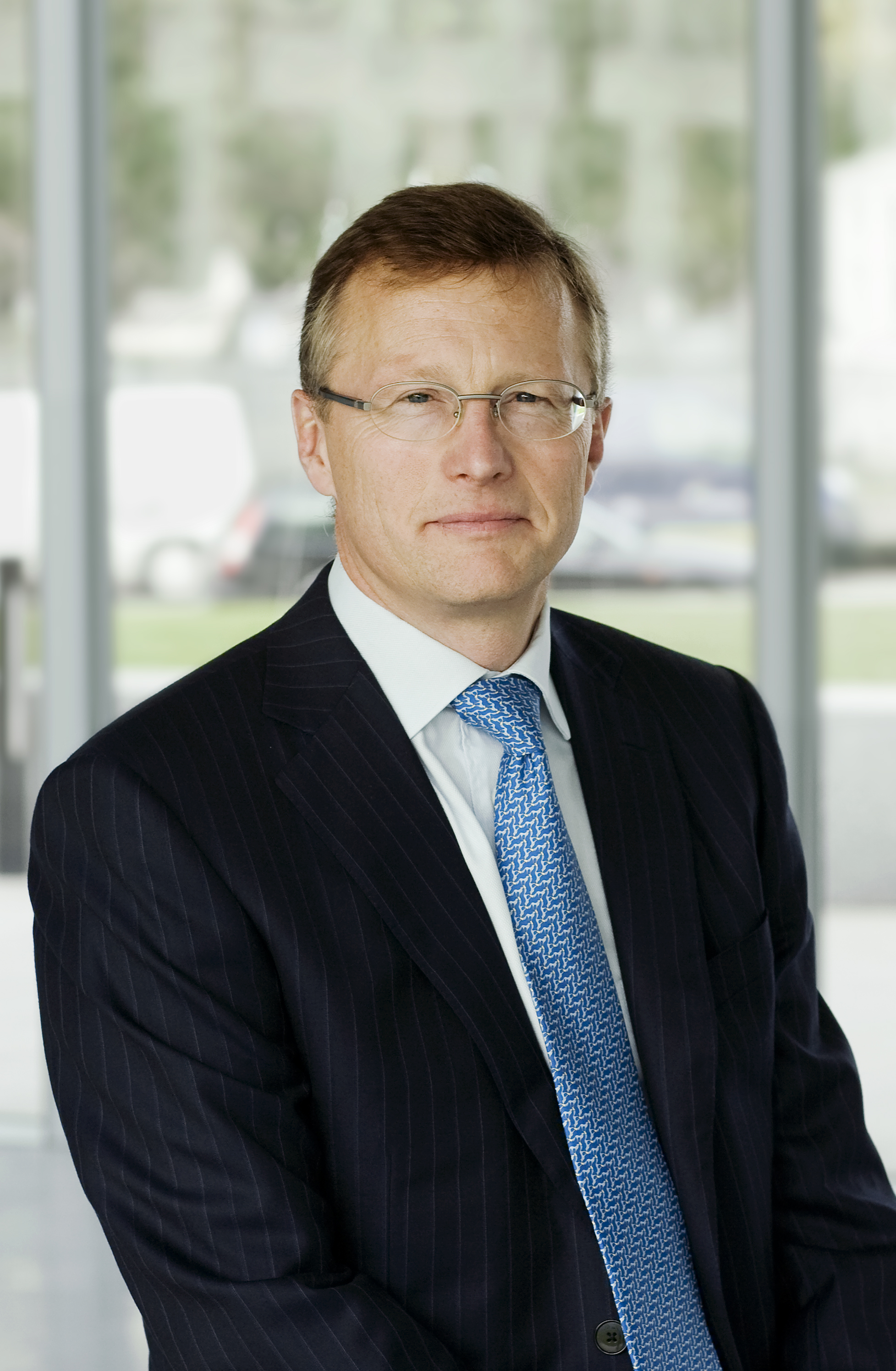 CEO of the A.P. Moller – Maersk Group, Nils Smedegaard Andersen